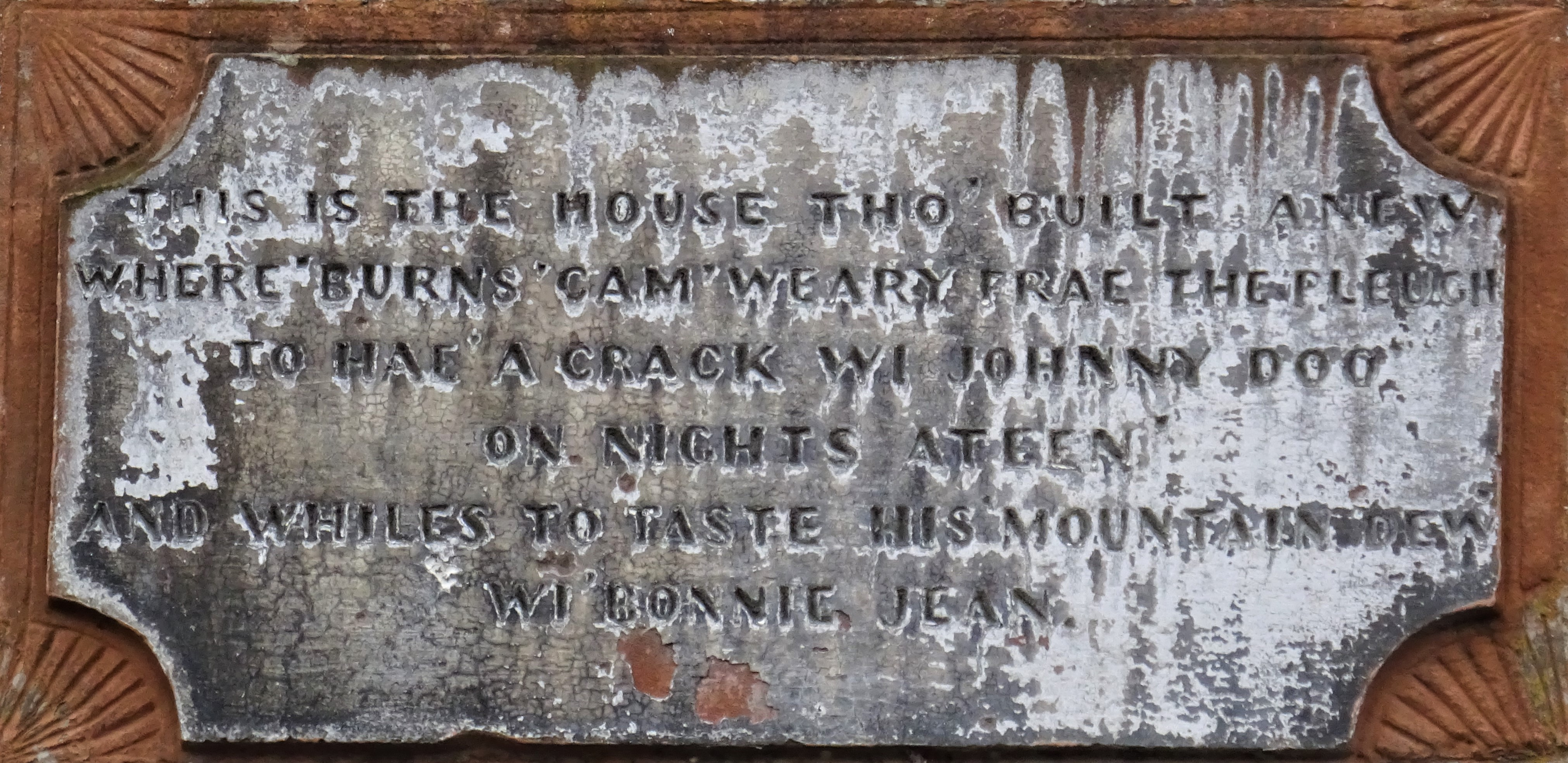 Whitefoord Inn site plaque, Cowgate, Mauchline, East Ayrshire, Scotland. James Armour's house stood behind the inn, separated by a narrow lane.